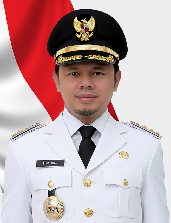 Bima Arya as Mayor of Bogor